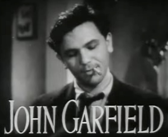 Cropped screenshot of John Garfield from the trailer for the film Four Daughters